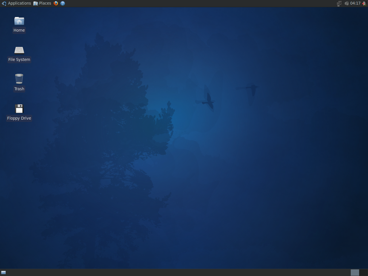 Screen shot of Xubuntu 9.10 Karmic Koala